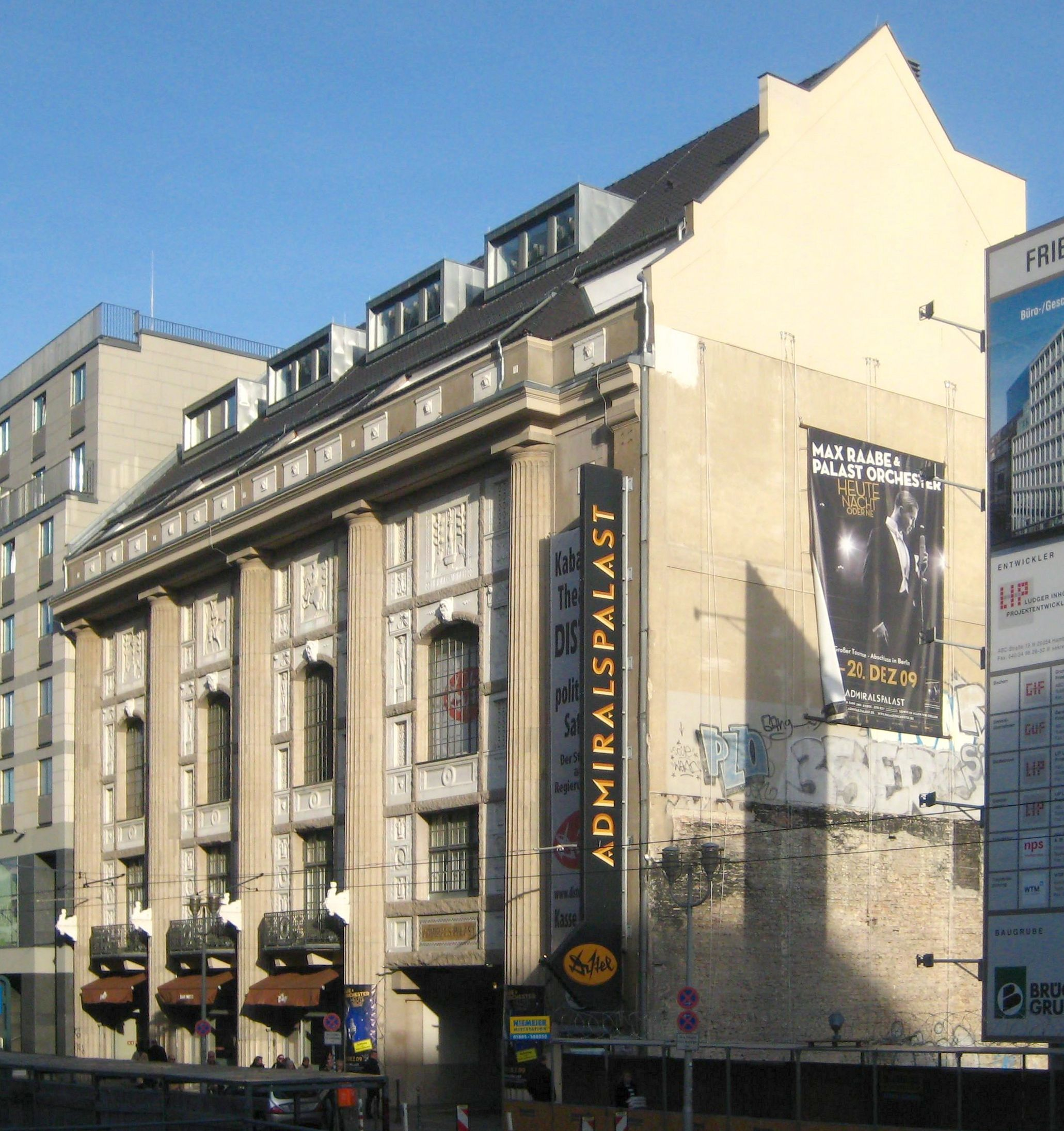 The Admiralspalast at Friedrichstraße No. 101-102 in Berlin-Mitte. It was built from 1910 to 1911 to a design by Heinrich Schweitzer as an entertainment venue and has been altered several times since. It has been designated as a historic landmark.